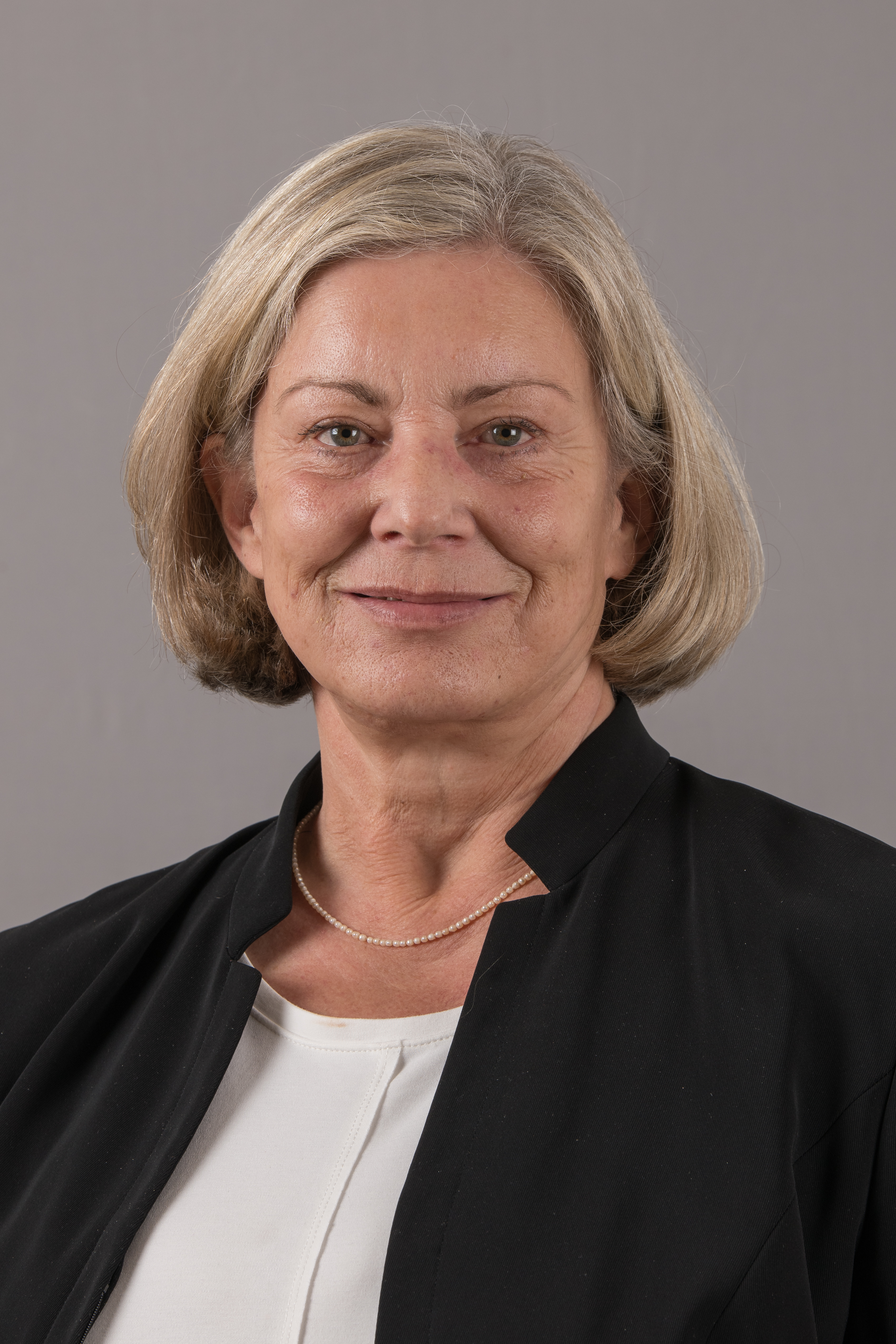 13/12/17, Bregenz/Vorarlberg, Landtagsprojekt Vorarlberg. Picture shows Gabriele Sprickler-Falschlunger (SPÖ), delegate to the Vorarlberger Landtag since 2014